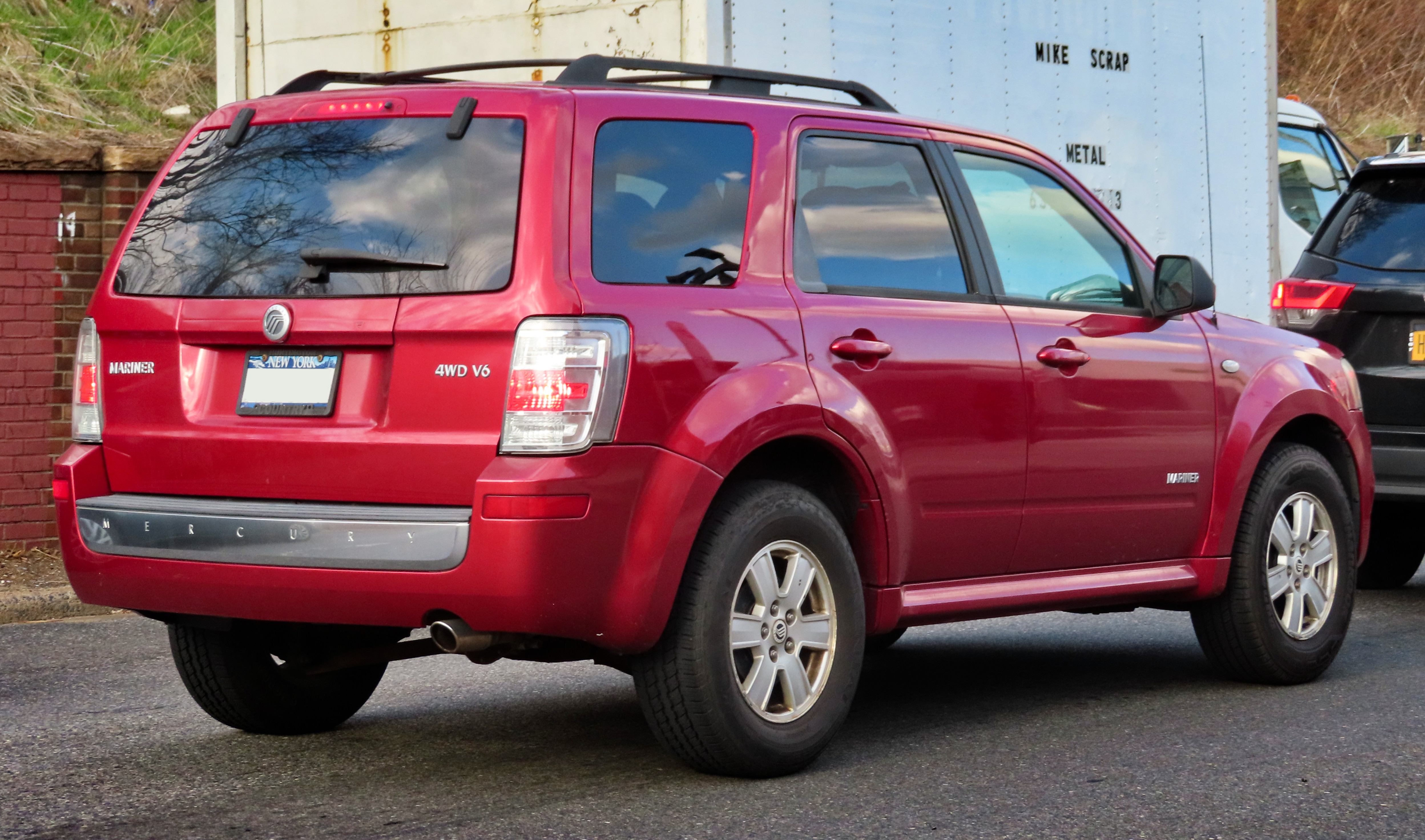 A 2008 Mercury Mariner photographed in Fresh Meadows, Queens, New York, USA